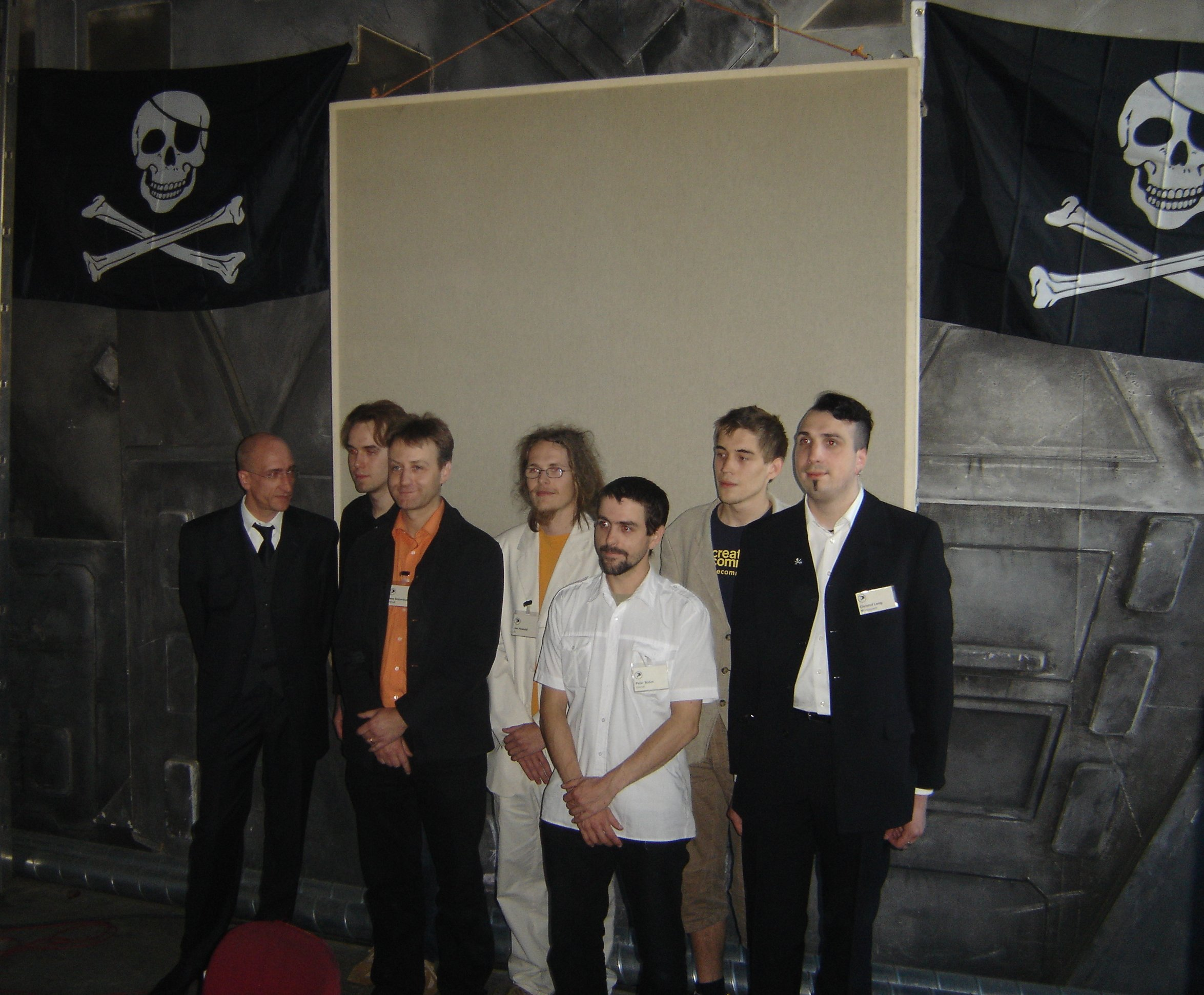 Elected Board members of the German Pirate Party (Piratenpartei)